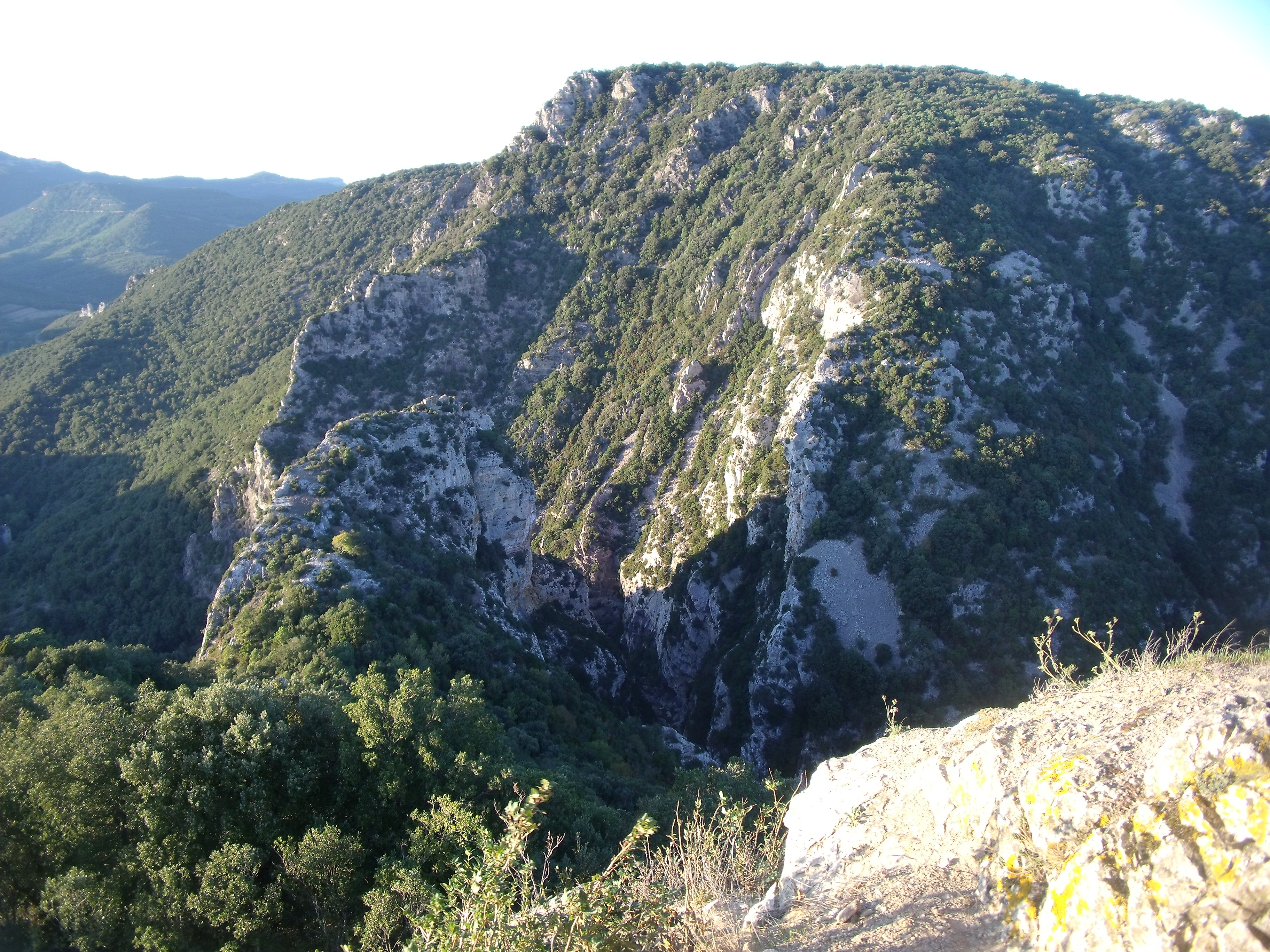 View of the Gorges of Termenet seen from the castle of Termes in the late afternoon (around 6pm). The rock in the middle is name "Le rocher du Termenet" and there was a fortification on it in medieval times. During the siege of Termes in 1210, the crusaders of Simon the Montfort attacked this fort, and after having taken it, they came closer on this side, to use a trebuchet against the defenders.